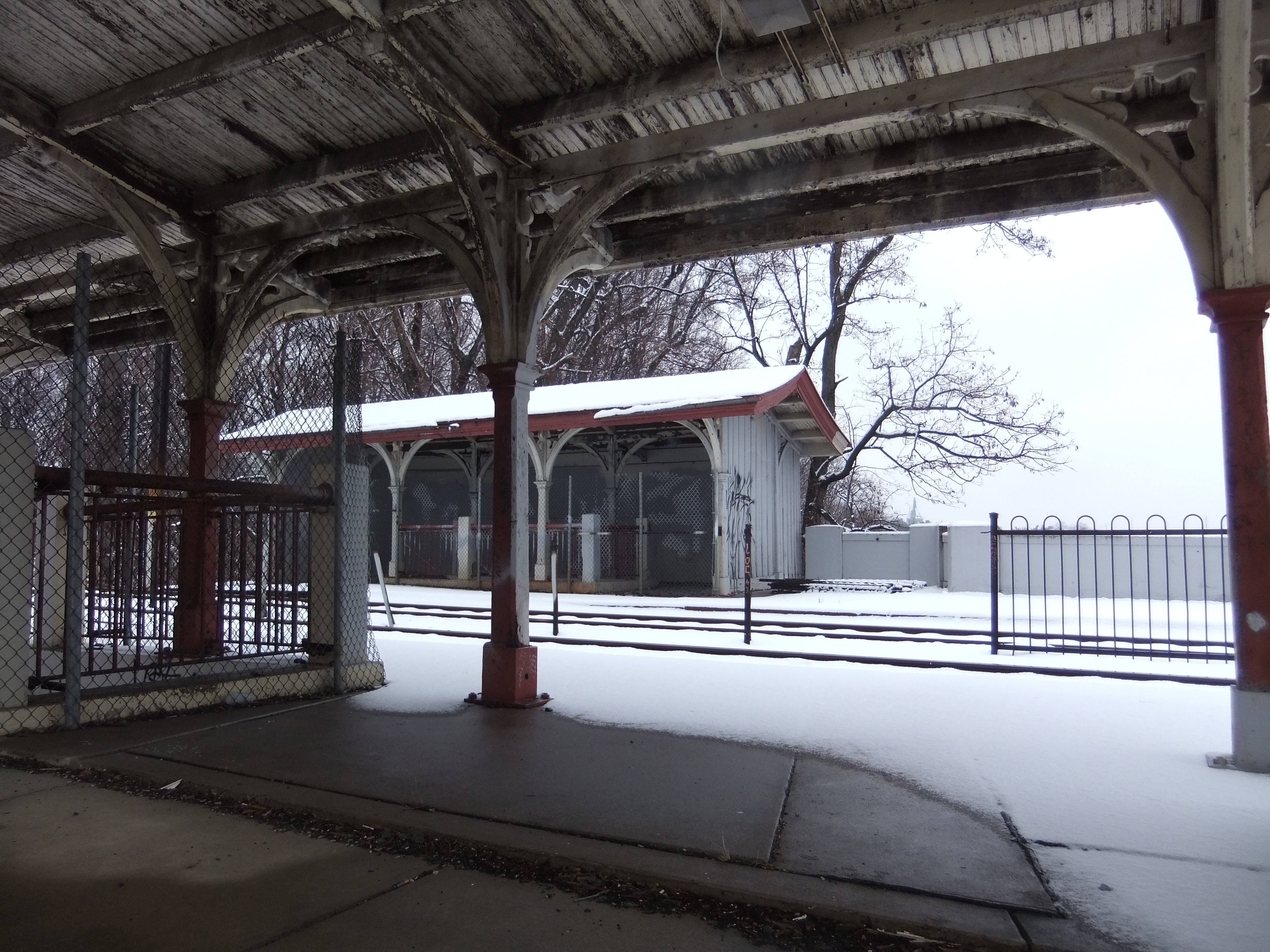 Fishers Station in along SEPTA's Chestnut Hill East Line.